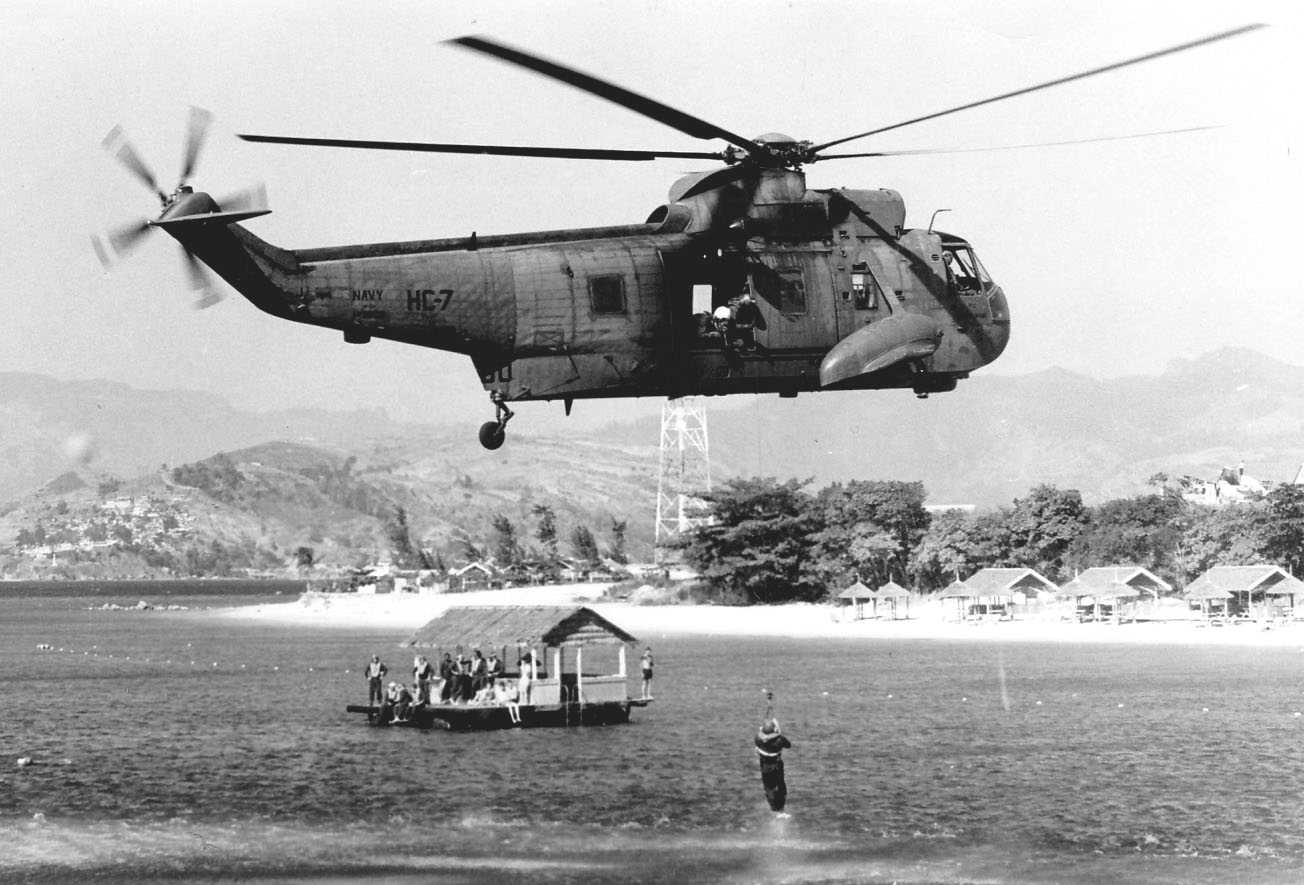 A U.S. Navy Sikorsky HH-3A Sea King of Helicopter Combat Support Squadron 7 (HC-7) during a search and rescue demonstration at Naval Air Station Cubi Point, Philippines, in January 1974.